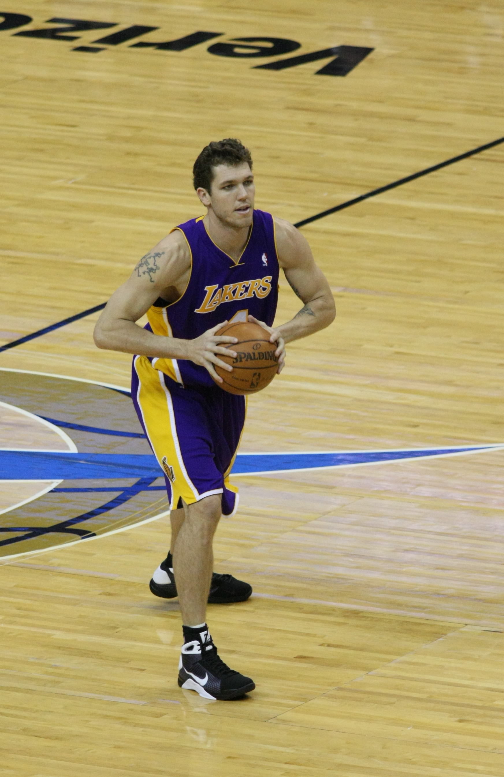 Luke Walton playing with the Los Angeles Lakers